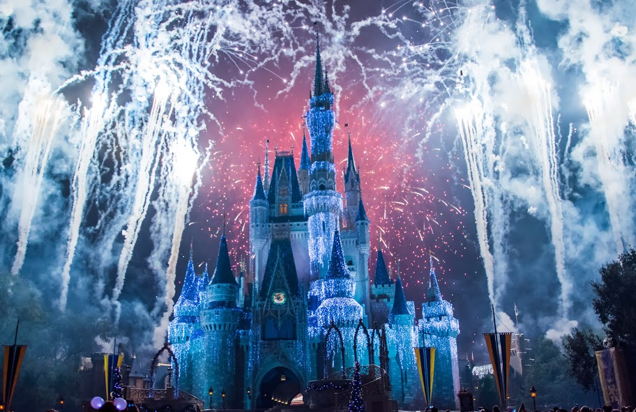 White-coloured firecrackers go up in sky before Cinderella castle, Disneyland.